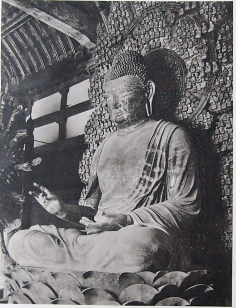 Seated Rushana Buddha(Vairocana) Hollow dry lacquer ,gold leaf over lacquer (shippaku), height 304.5 cm (119.9 in) , later 8th century, Tōshōdai-ji, Nara, Japan